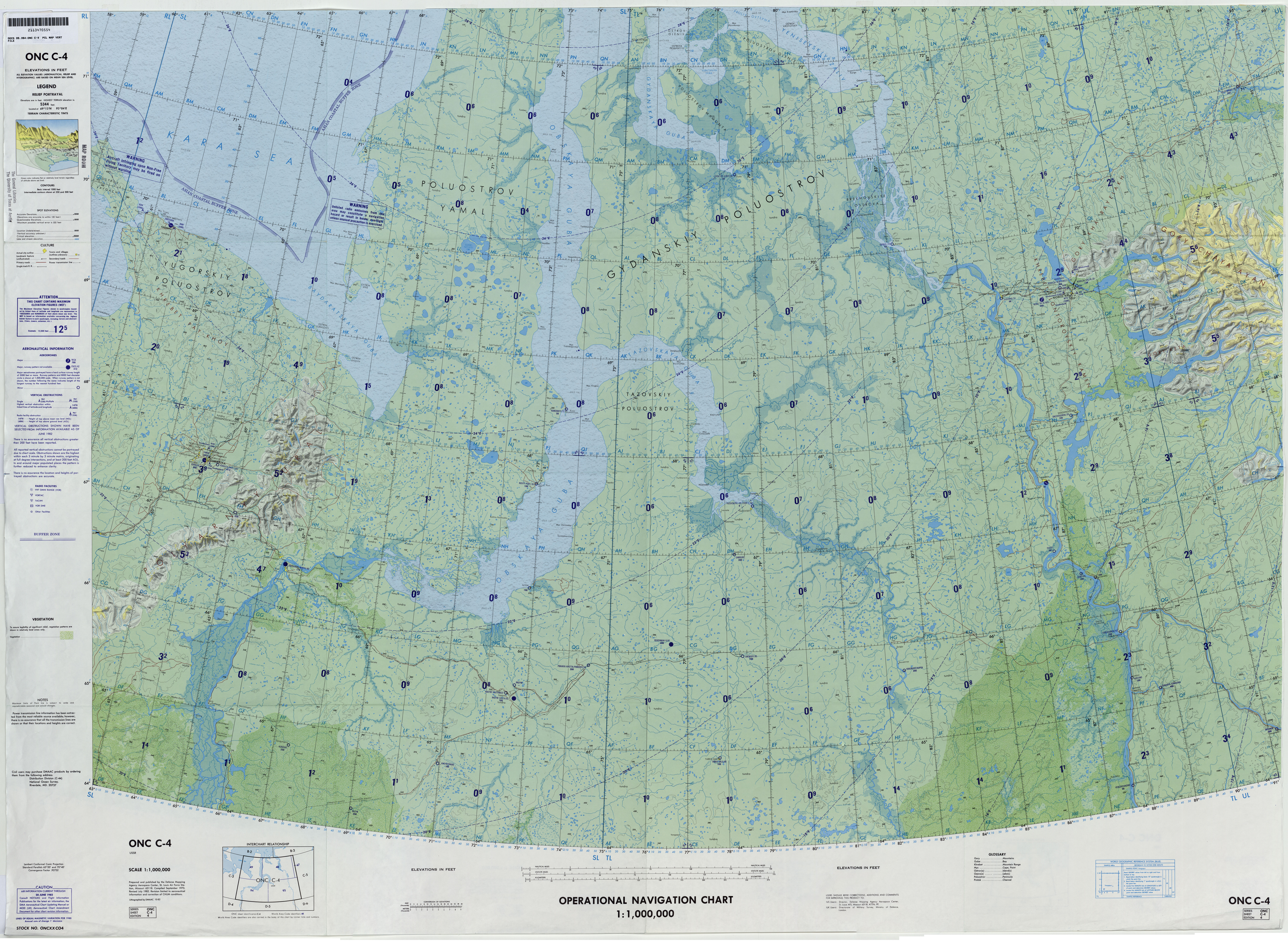 1:1,000,000 scale Operational Navigation Chart, Sheet C-4, 4th edition. Covers U.S.S.R. Lambert Conformal Conic Projection. Standard Parallels 65 20N and 70 40N. Center longitude 77E.